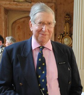 John Gouriet at Stanway House 2010